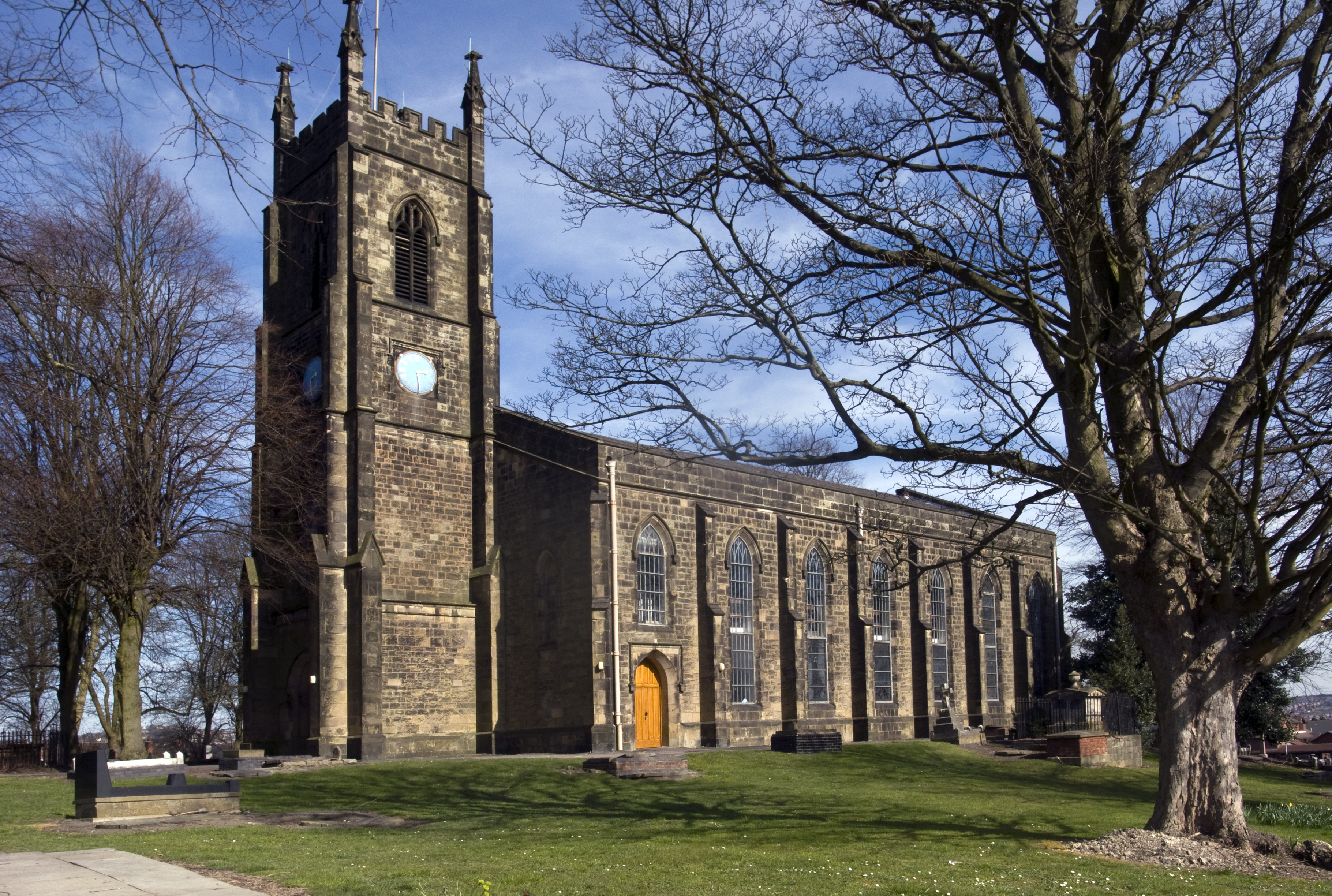 St Andrew's parish church, Netherton, West Midlands, seen from the southwest